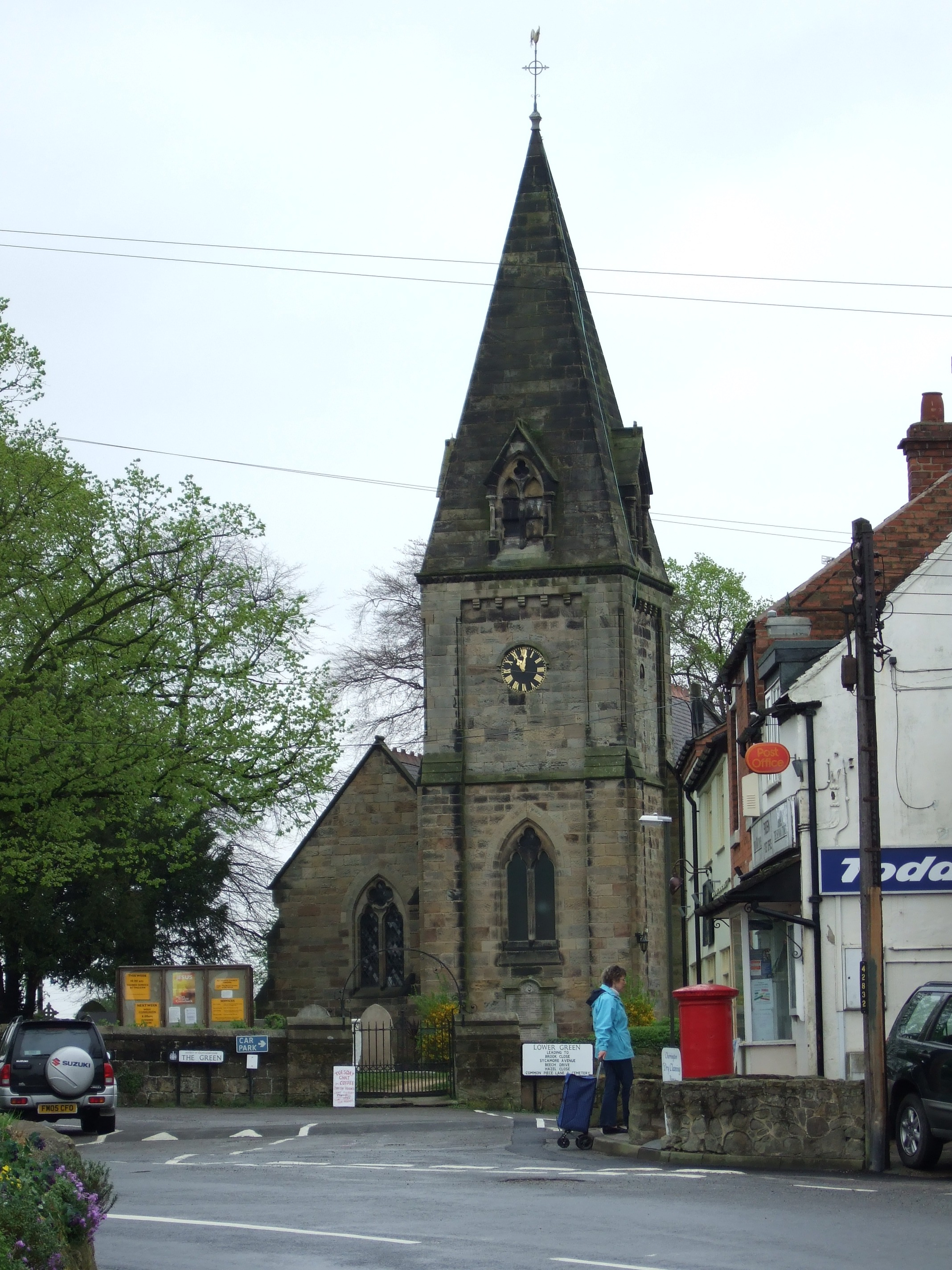 All Saints' parish church, Findern, Derbyshire, England, seen from the southwest